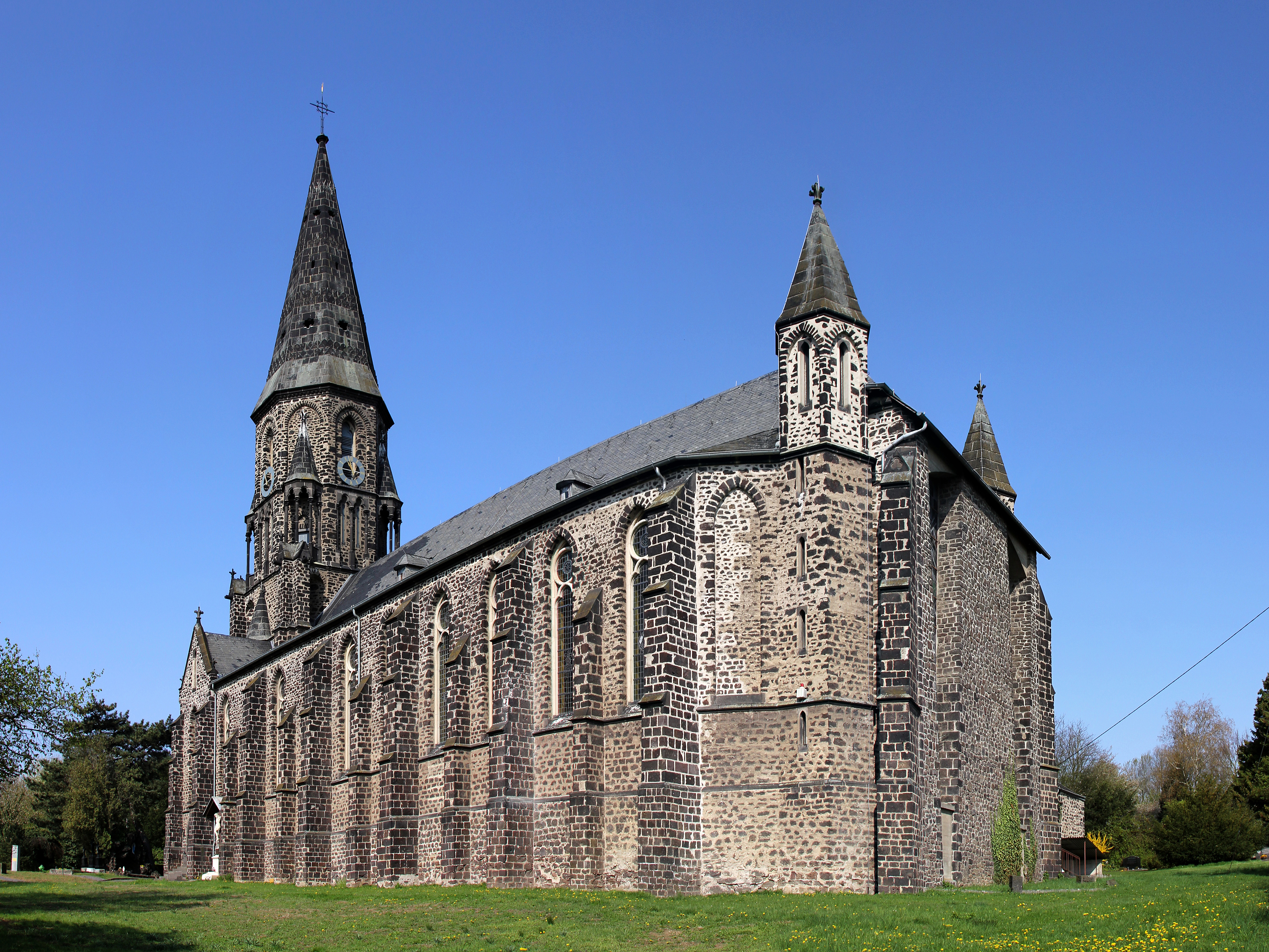 St. Mauritius church in Koblenz